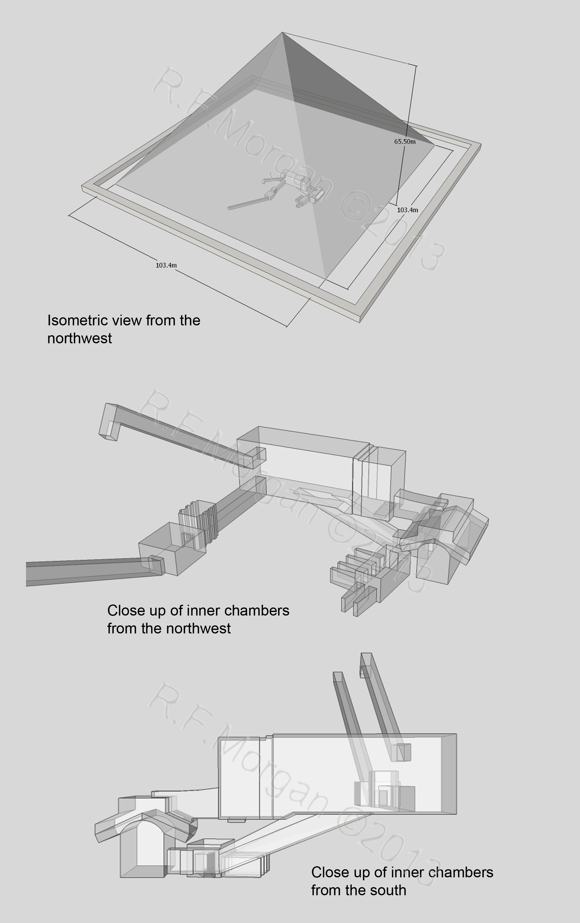 The pyramid of Menkaure and close-ups of the inner chambers